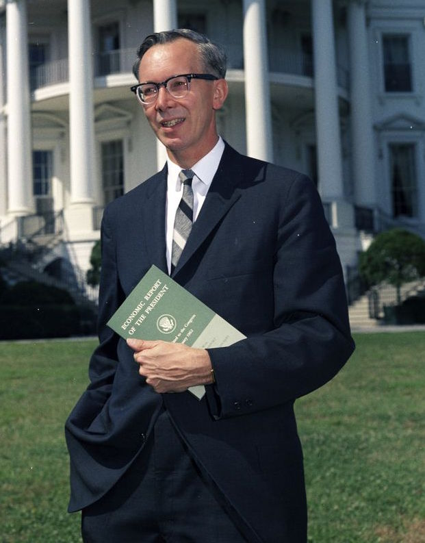 Chairman of the Council of Economic Advisers (CEA), Walter W. Heller, stands on the South Lawn of the White House, Washington, D.C. Mr. Heller holds a copy of the Economic Report of the President, transmitted to Congress in January of 1962.